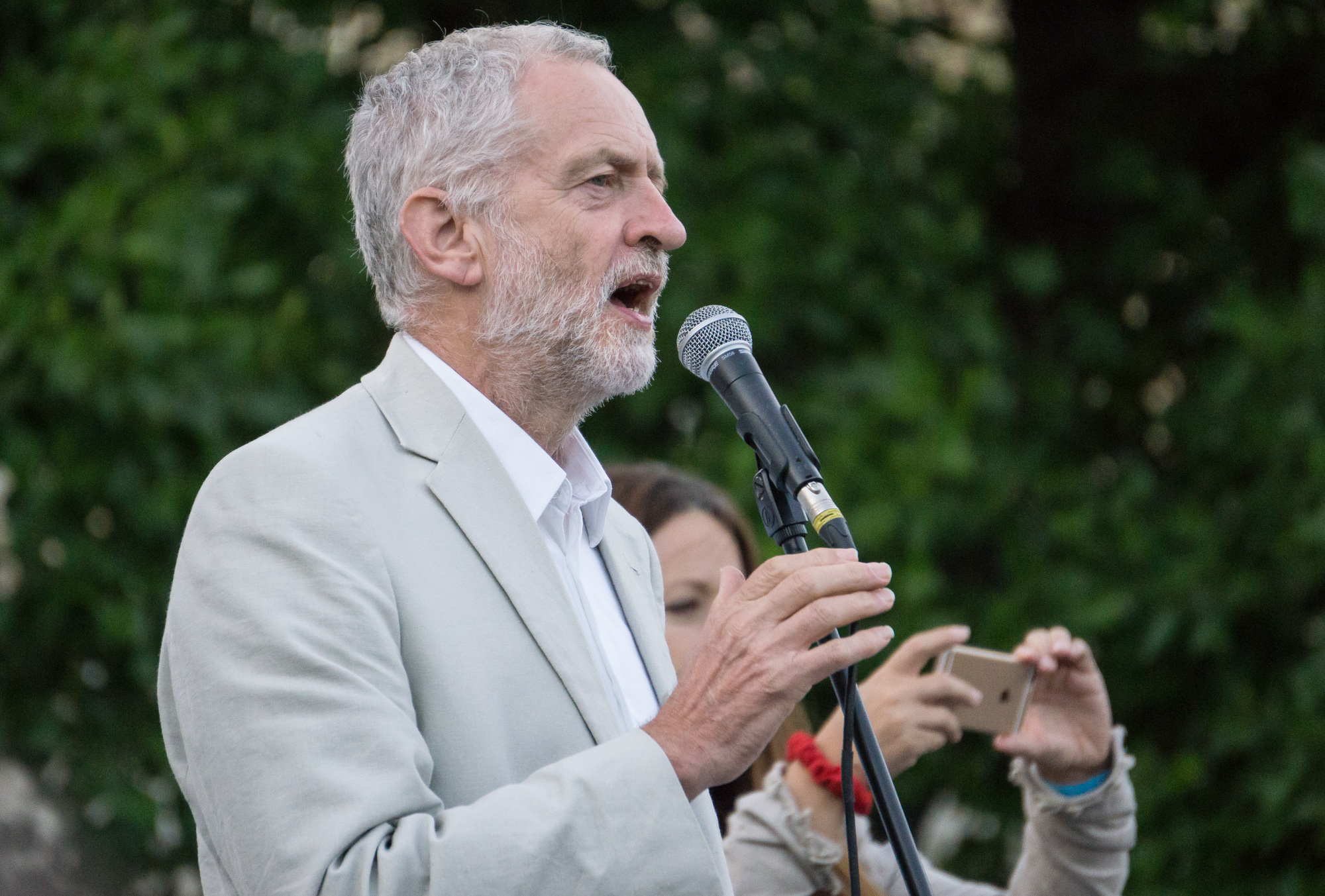 Corbyn speaking at a leadership election rally to his supporters in August 2016